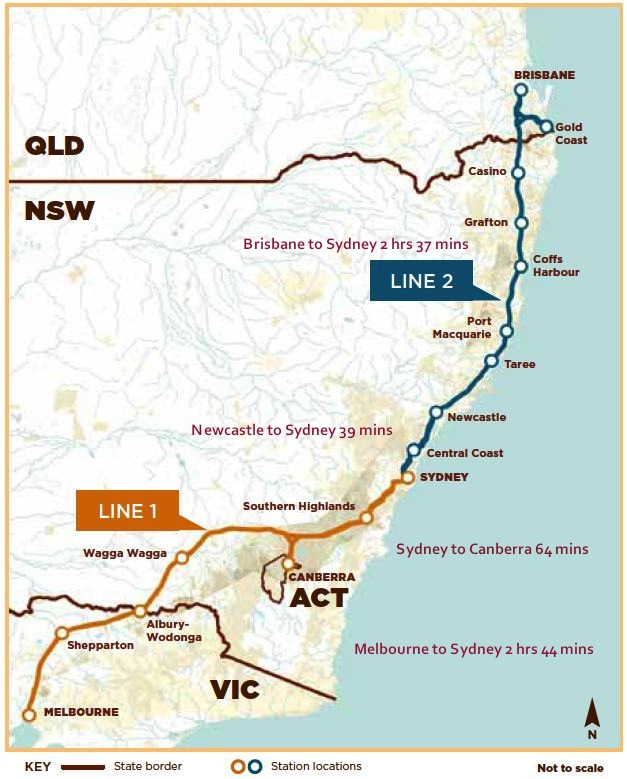 Colour diagram showing map of south-eastern Australia on which is marked the preferred route of the prospective east coast high speed rail system currently being studied by the Australian Government.